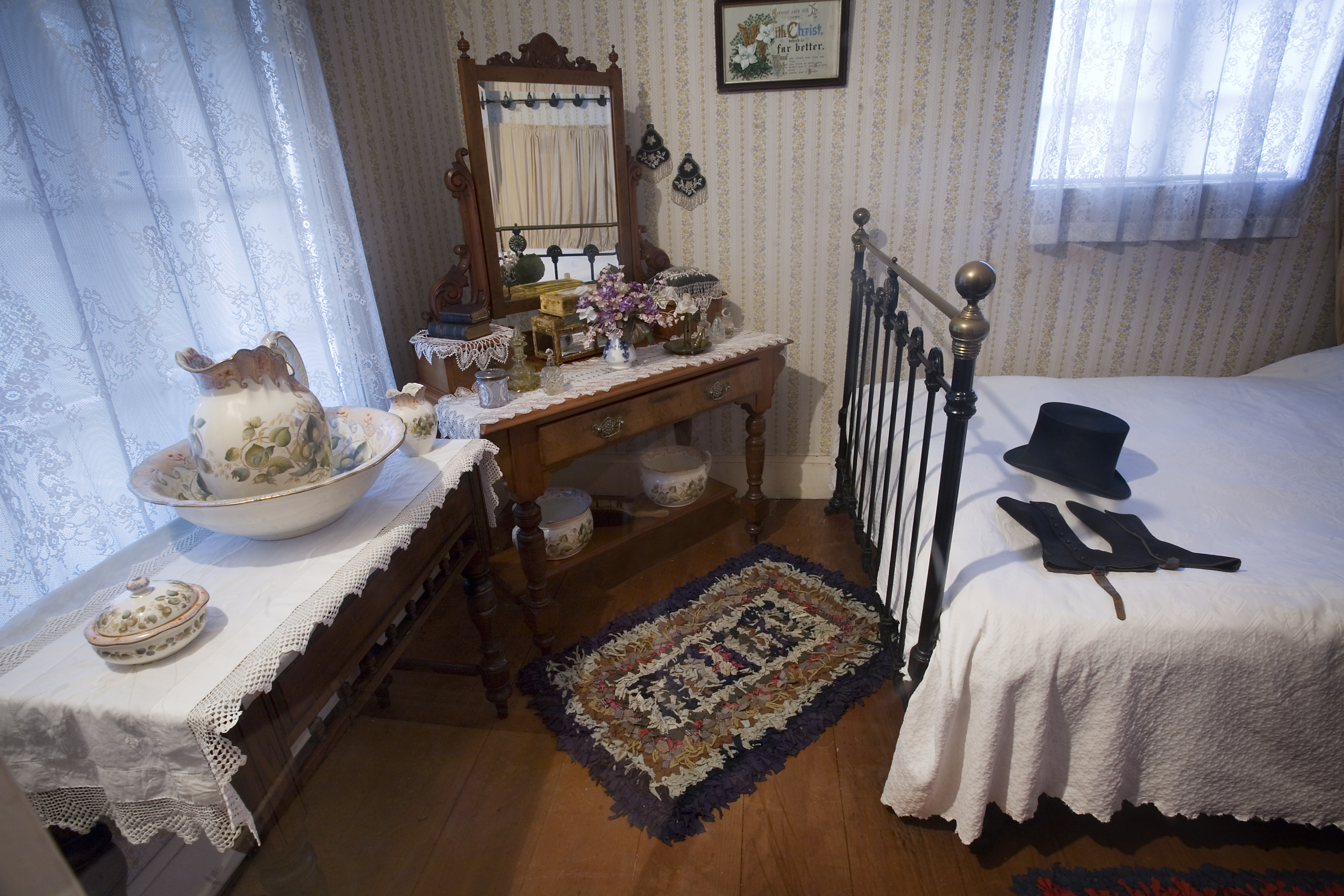 A 19th century bedroom with a top hat over the bed. Victorian Village, Museum of Transport and Technology (MOTAT) , Auckland, New Zealand.